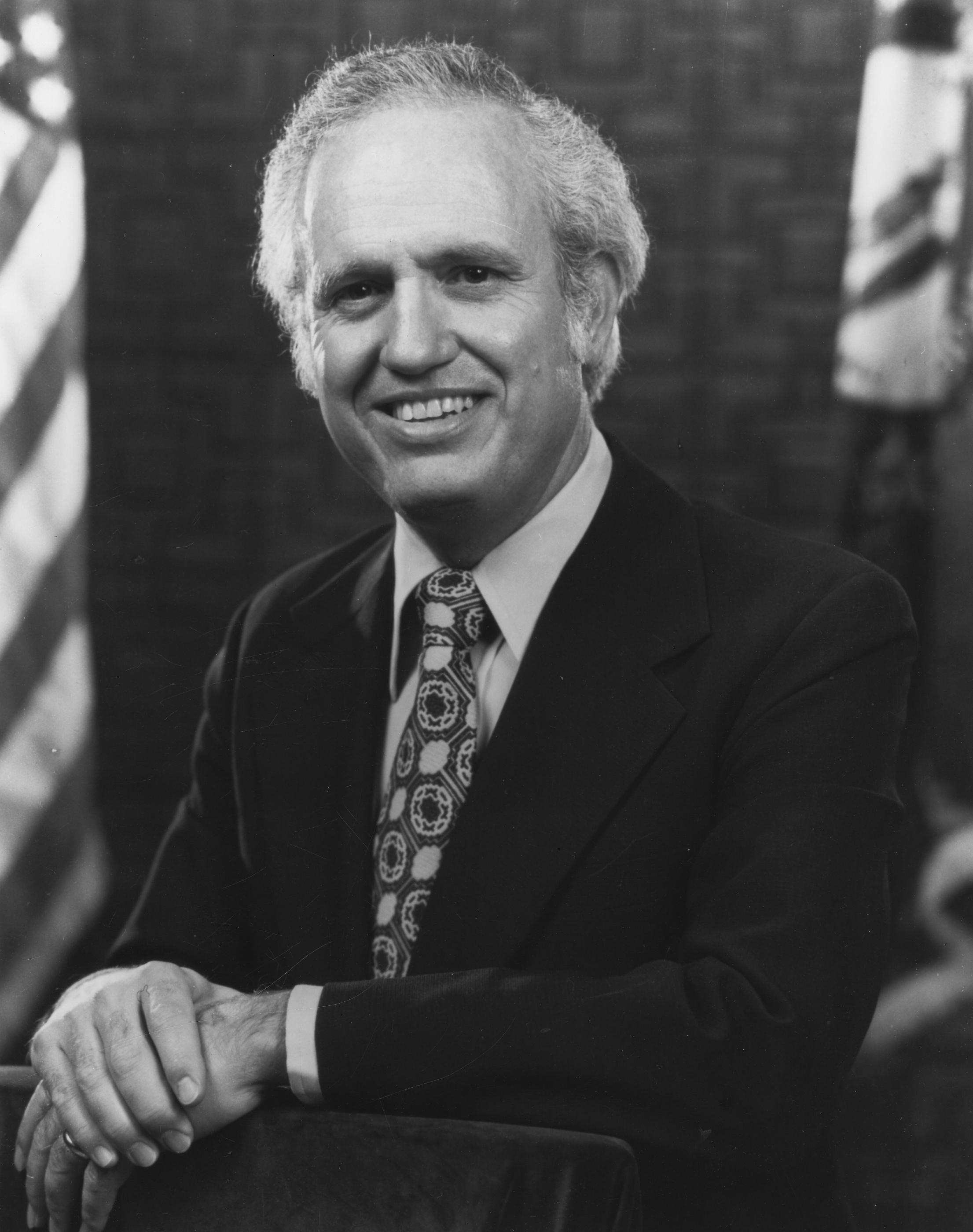 Kentucky Governor Julian CarrollDepicted person: Julian Carroll – American politician